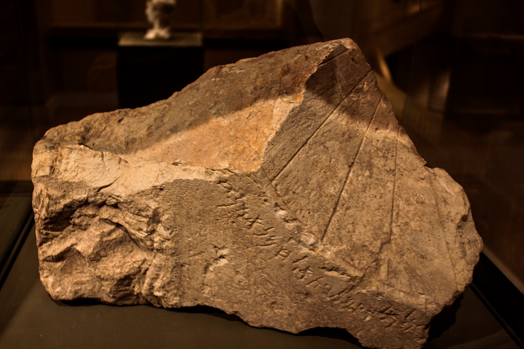 Limestone Phoenician sun dial with inscription from Umm el 'Amed near Tyre